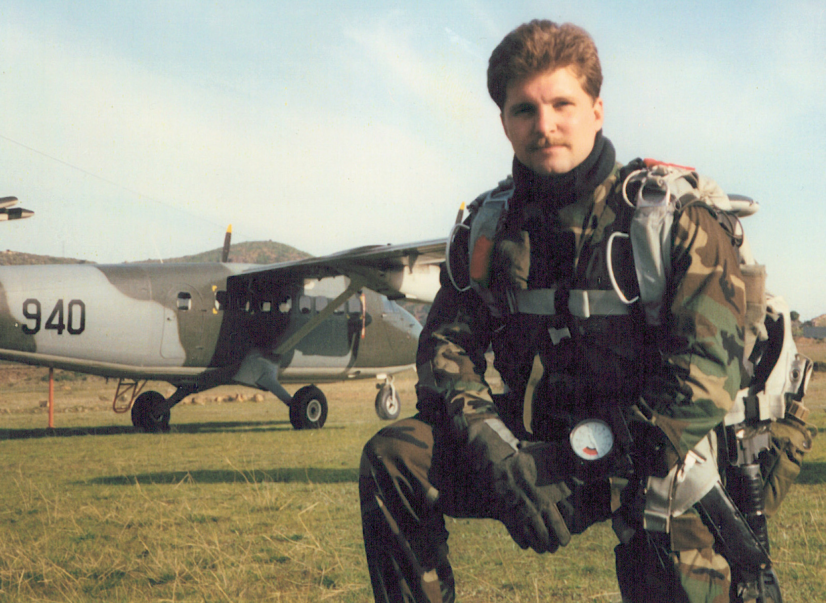 Air Force Tech. Sgt. John A. Chapman was killed in action in Afghanistan in 2002 and was posthumously awarded the Air Force Cross for his heroism. On April 8, a Navy cargo ship will be named for Chapman at a pierside ceremony in Southport, N.C.